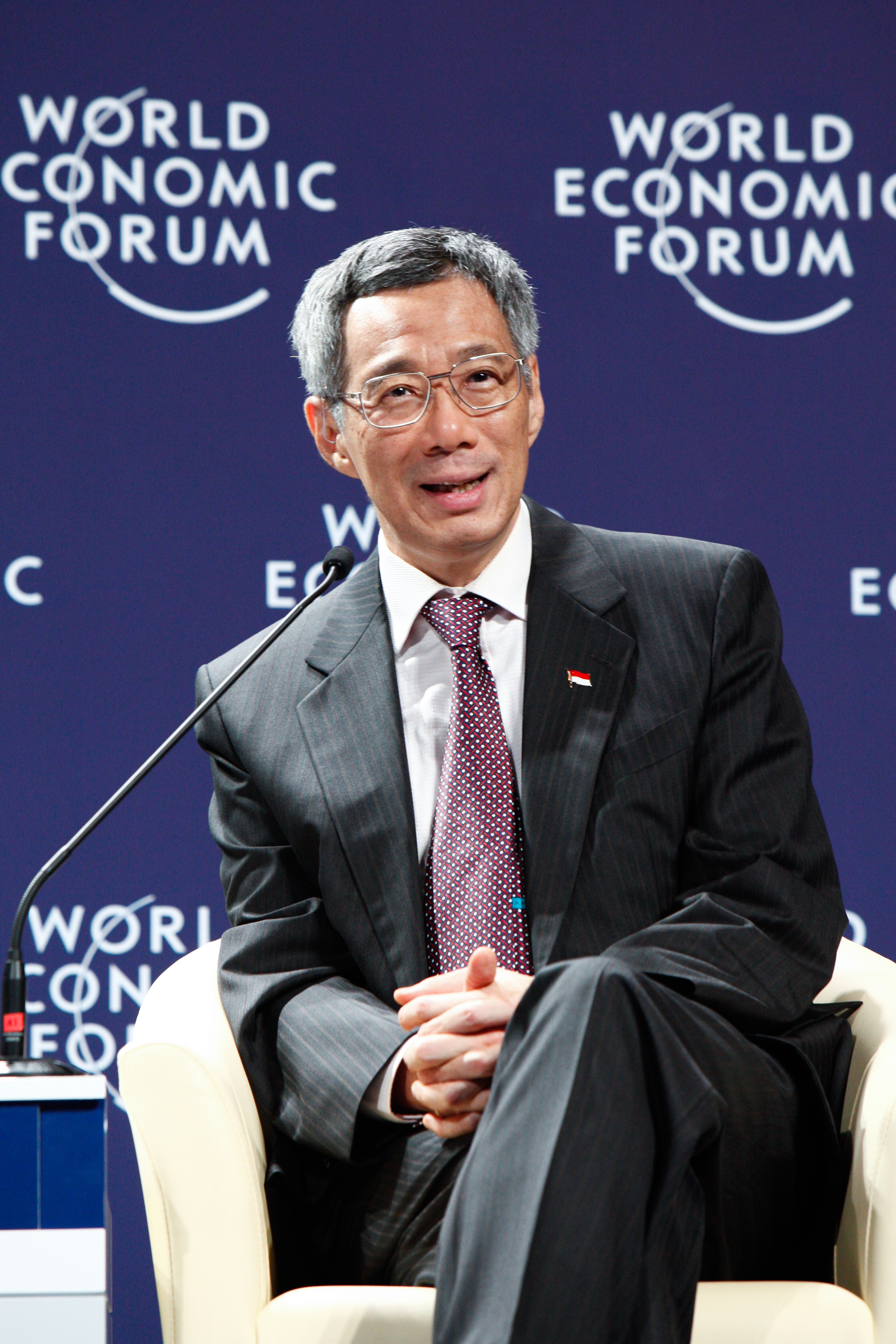 JAKARTA/INDONESIA, 12JUN11 — Lee Hsien Loong, Prime Minister of Singapore, at the Opening Ceremony of the World Economic Forum on East Asia in Jakarta, Indonesia, June 12, 2011.